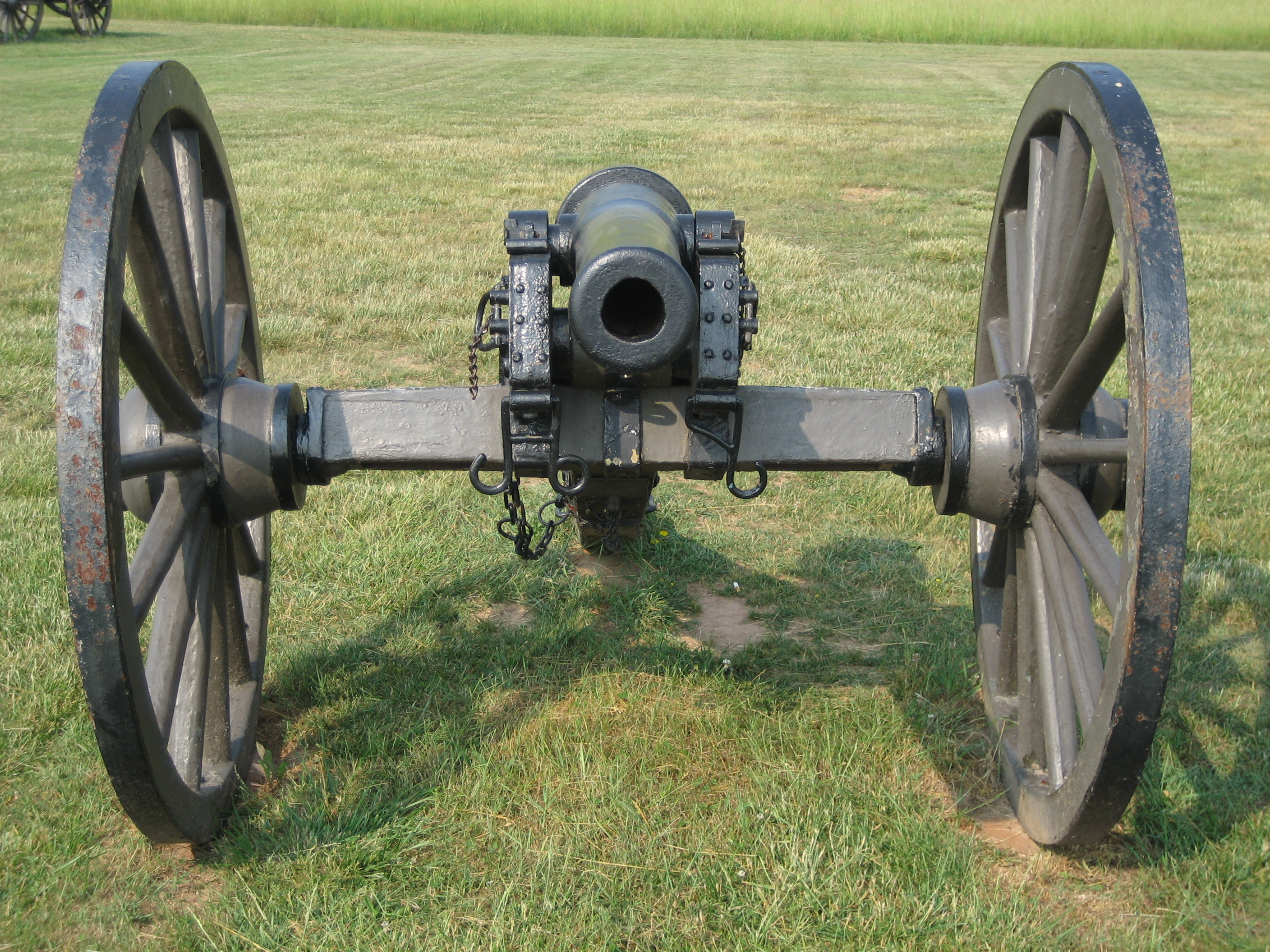 A picture of a Union Army Parrot Rifled Cannon located at the Manassas battlefield.